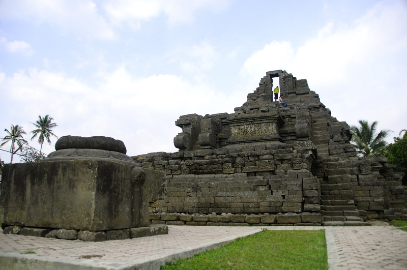 Candi Jago, Tumpang, Malang, Jawa Timur